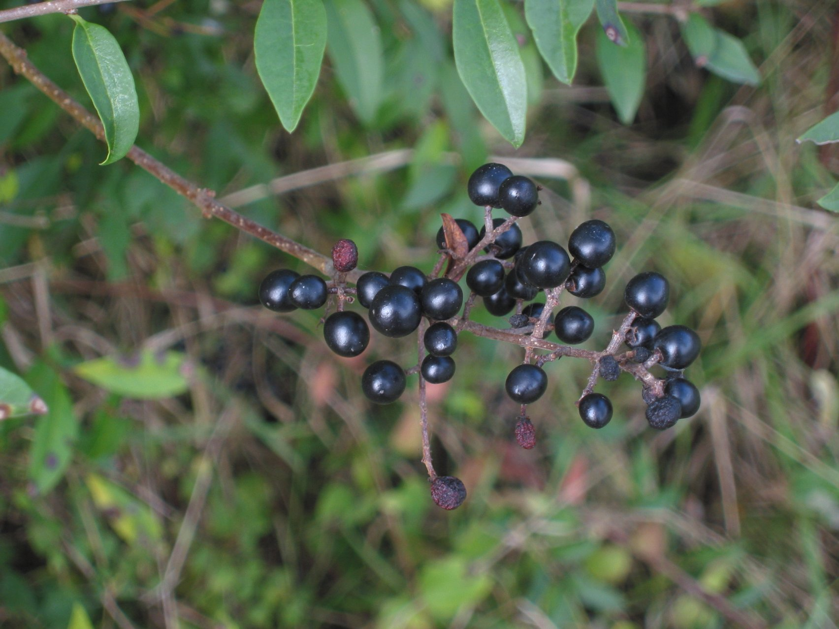 Ligustrum vulgare fruits